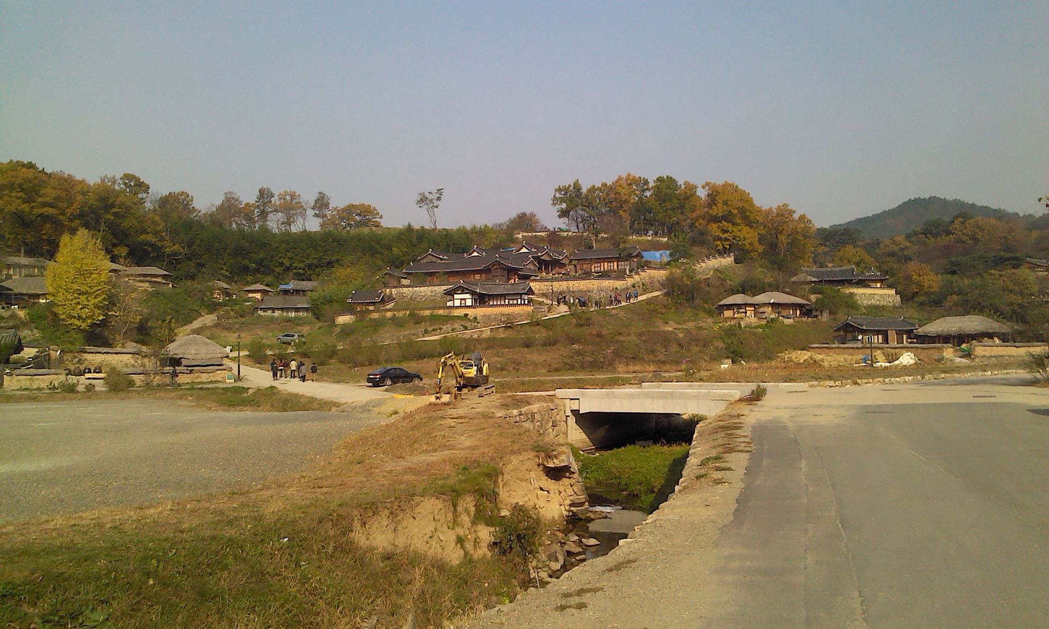 A photo taken at yangdong folk village when you enter it. It lies in a valley which is relatively obscure for the outside world and was therefore saved from all kind of devastating wars